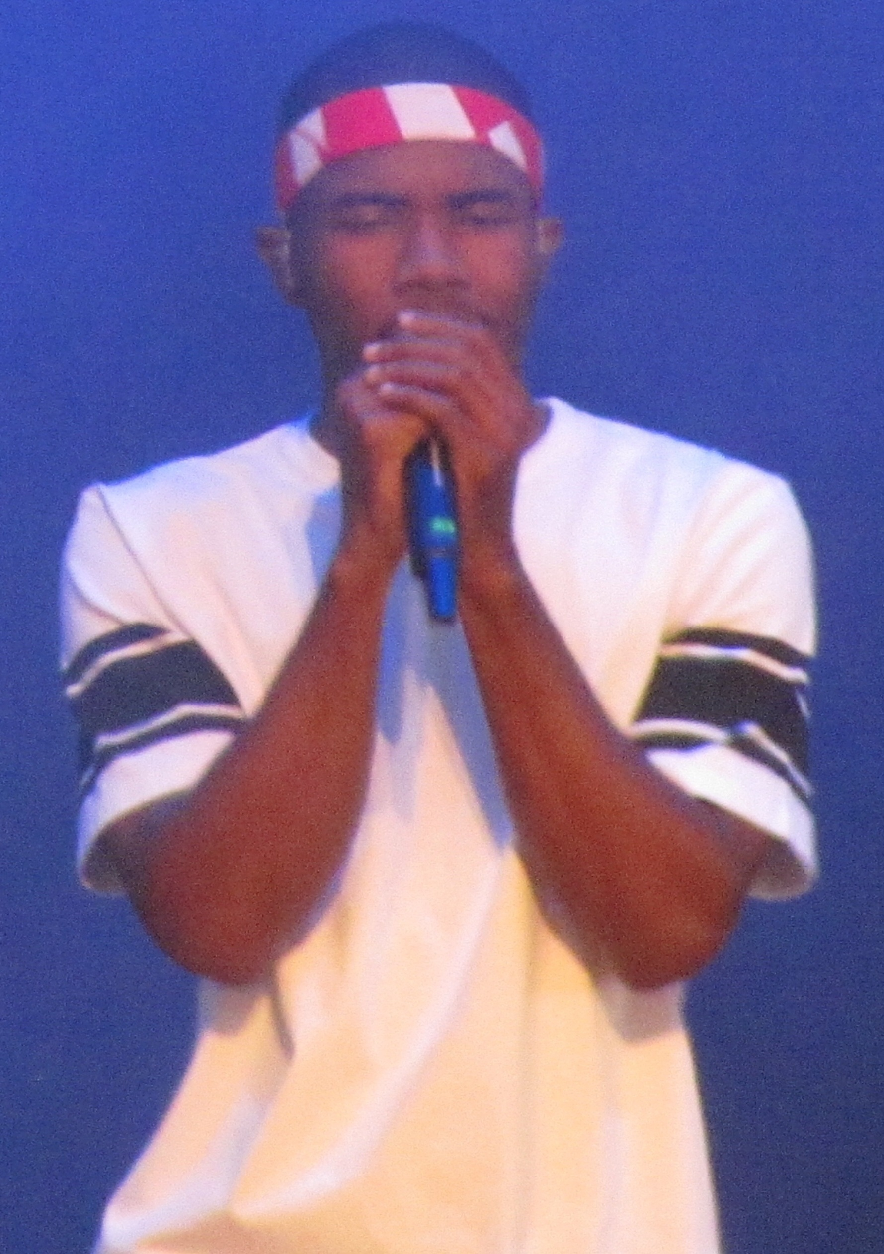 Frank Ocean performing at the Wireless 2013